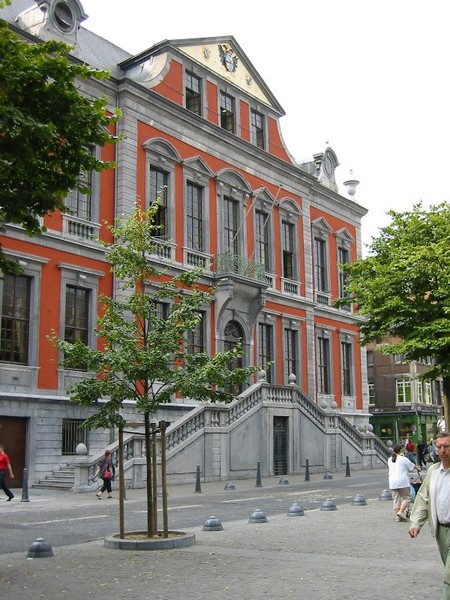 City hall of Liège